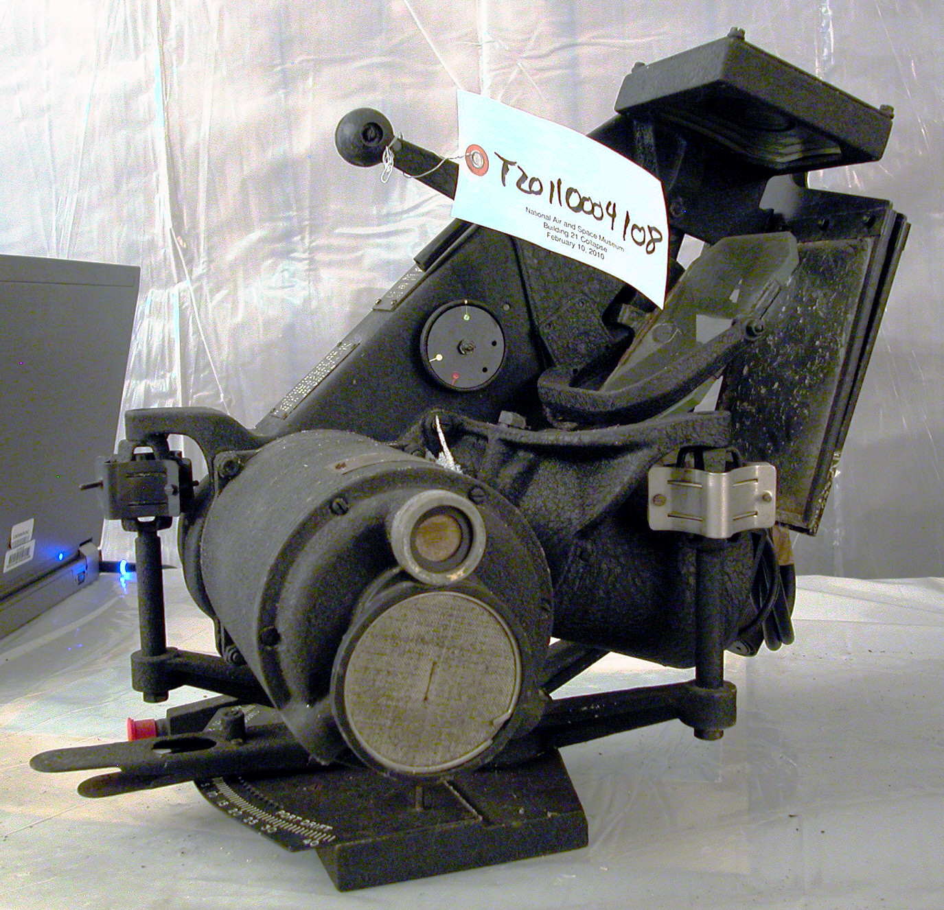 The Low Level Bombsight Mk. III consisted of two parts, the computor, and the sight(ing) head, shown here. The main part of the sight is a reflector sight, who's clipped-corner rectangular glass plate is roughly centered in the image. This displays a series of moving lines being projected from the large box on the left of the sight (to the back in this image). The bomb aimer dropped the bombs when the motion of the target was the same speed as the moving lines, a concept known as the "angular velocity method". In front of the main sight is a second glass plate that is used as a filter for night operations. It also has an associated metal shield, which is rotated to cover the plate in this case. Either or both of these would be rotated to the left of the sight during operation. The large cylinder at the bottom of the sight provides pitch stabilization. It was originally a Sperry artificial horizon that has been adapted so that its output tilts the entire sight fore and aft to account for any changes in the pitch of the aircraft. This was important in the low-level role, where the aircraft often approached the target from very low level and then began to pull up just before reaching it. The handle with the tag is used to rotate the sight up and down so it continues to over the target as the aircraft approaches. In its current position it has the sight pointed fairly down, which would be the case at the time of the drop. During the early approach the handle would be moved down, towards the stabilizer housing. This tilts the sight up, so the bomb aimer can use it while still far from the target. The handle projecting from the bottom (left bottom of the photo) is used to rotate the entire sight left or right to account for any crabbing or sideways drive.